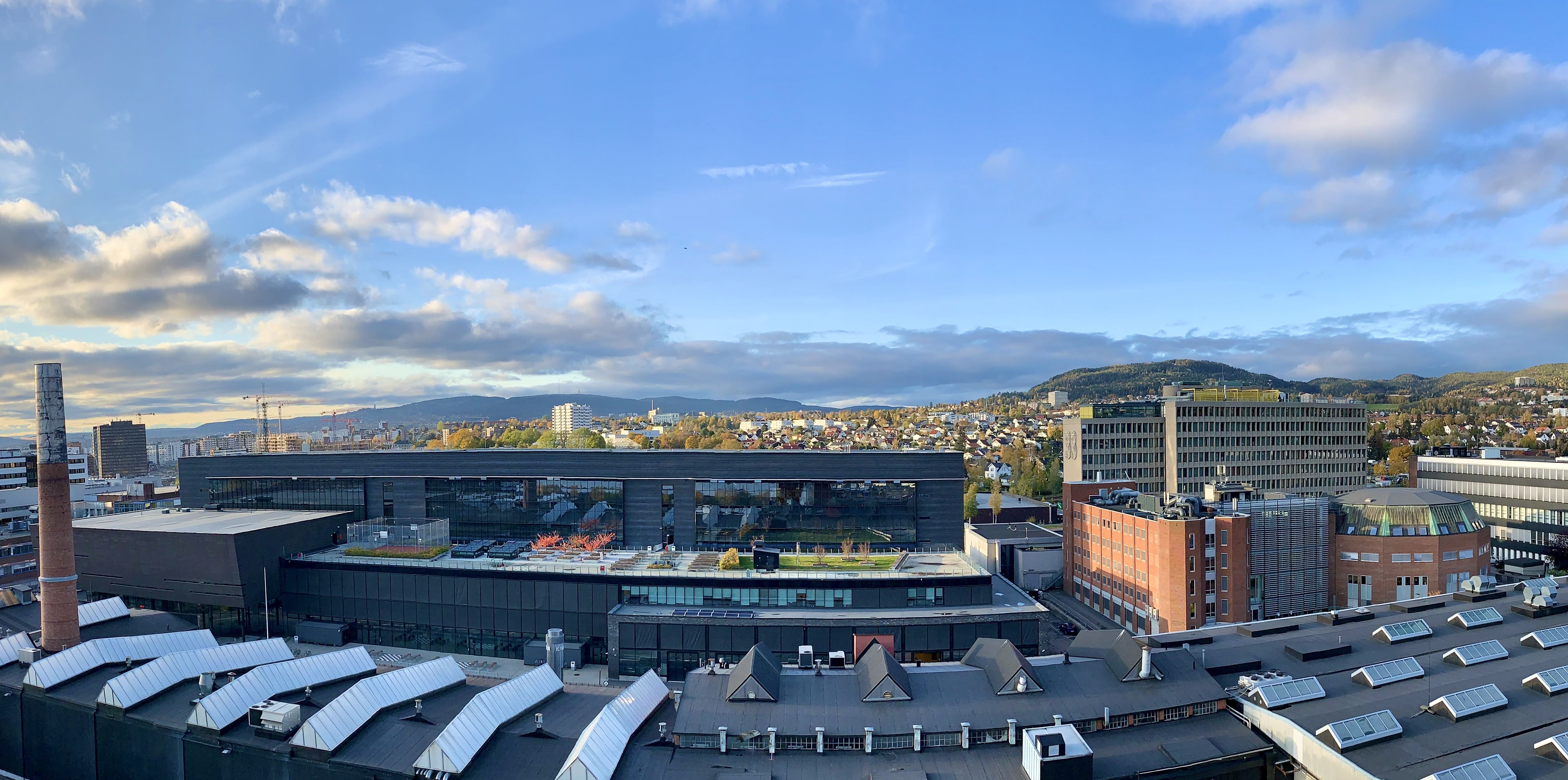 Kuben Upper Secondary School